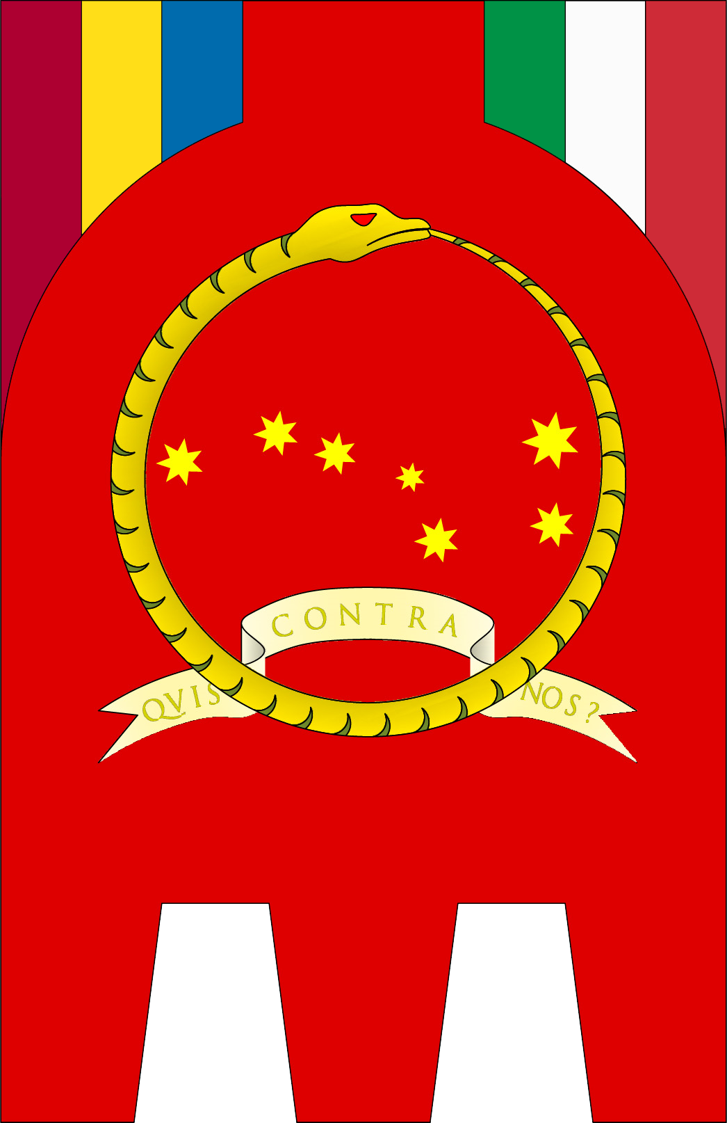 Reggenza del Carnaro. Bandiera R.I. del Carnaro - flag of the Reggenza Italiana del Carnaro, Italian Regency of the Kvarner, unofficial Fiume State in 1919-20. Motto: Quis contra nos (en: "Who against us?"; it: "Chi contro di noi?"). The flag was an original concept by Gabriele D'Annunzio, Il Duce of the Italian Regency.